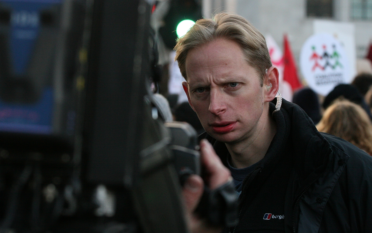 Mike Sergeant : BBC News 24 covering student protests - Parliament Square, London 2010